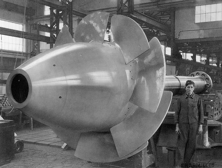 Kaplan turbine of the Poulaphouca power station in Ireland. Two such turbines are installed, each having a capacity of 25.300 horsepower at a hydraulic head of 50.5 m. The turbines were delivered by Ateliers des Charmilles SA from Geneva, Switzerland. The contract was executed in collaboration with English Electric, London